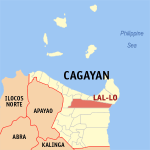 Map of Cagayan showing the location of Lal-lo